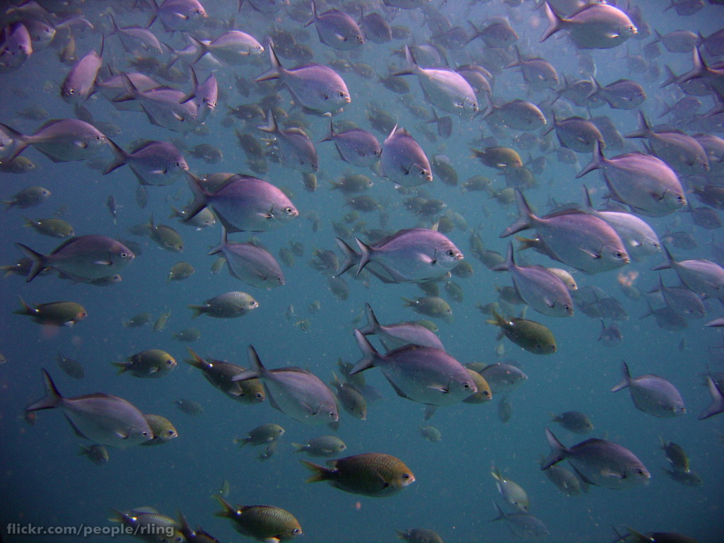 A shoal of Silver Sweep (Scorpis lineolata) in blue water. Blue Fish Point, Sydney, NSW